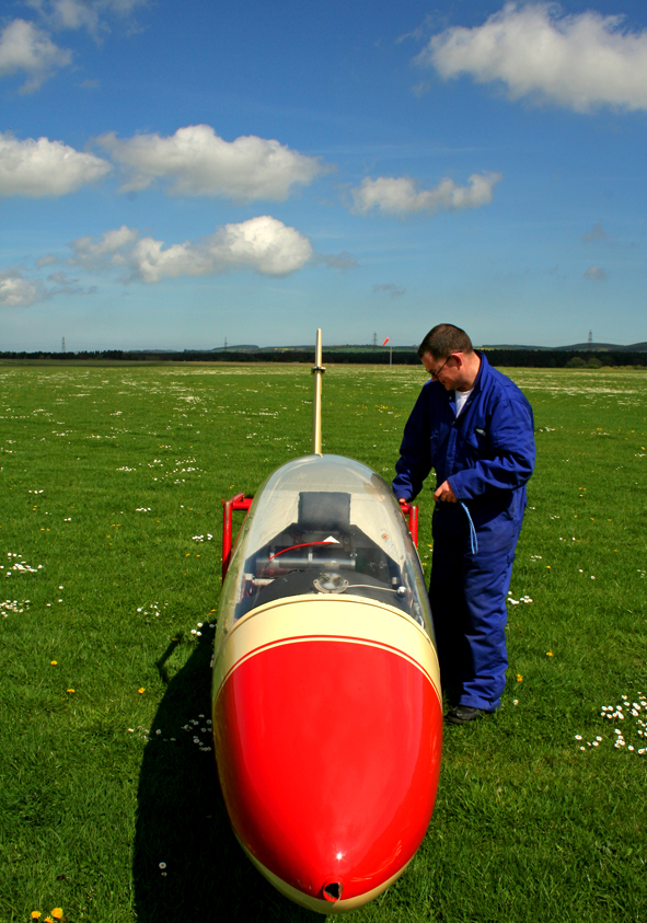 Slingsby Skylark Model T50 - commonly known as 'The Skylark IV'. Manufactured in 1962, Skylark IV BLA (Bravo Lima Alpha) was first owned by Professor Frank Irving - aeronautical engineer from Imperial College London. This Skylark is currently resident at Borders Gliding Club, Northumberland, UK. Wingspan is 18.2 metres. Skylark IVs have achieved heights in excess of 30,000 ft and flights of over 300 miles. This photo shows the fuselage minus the wings - in the course of being re-assembled after its annual C of A check